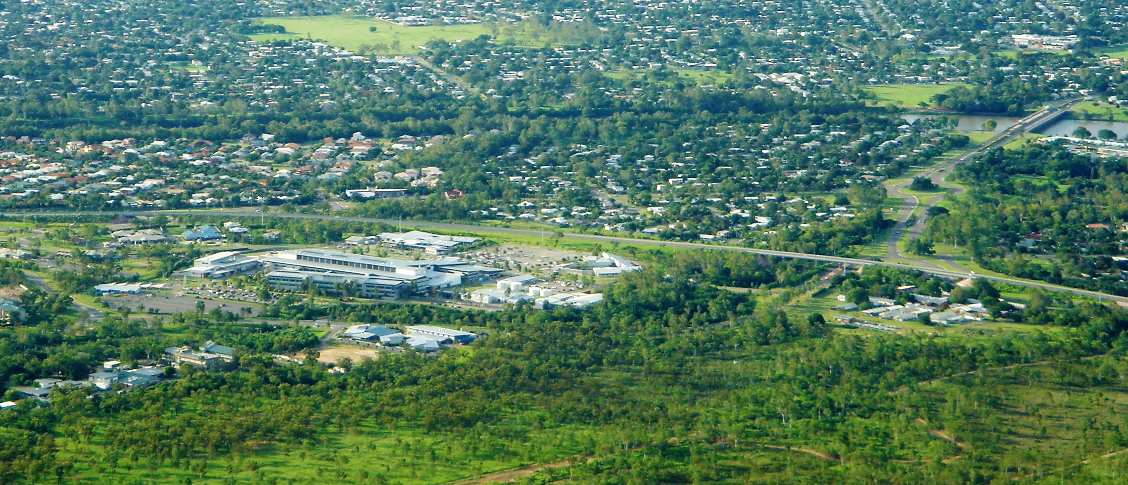 Panorama of Castle Hill from Mt Stuart